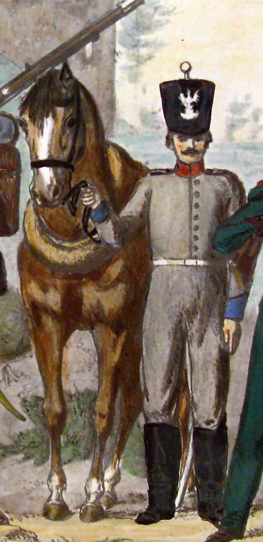 Trainer of Polish Army of november Uprising